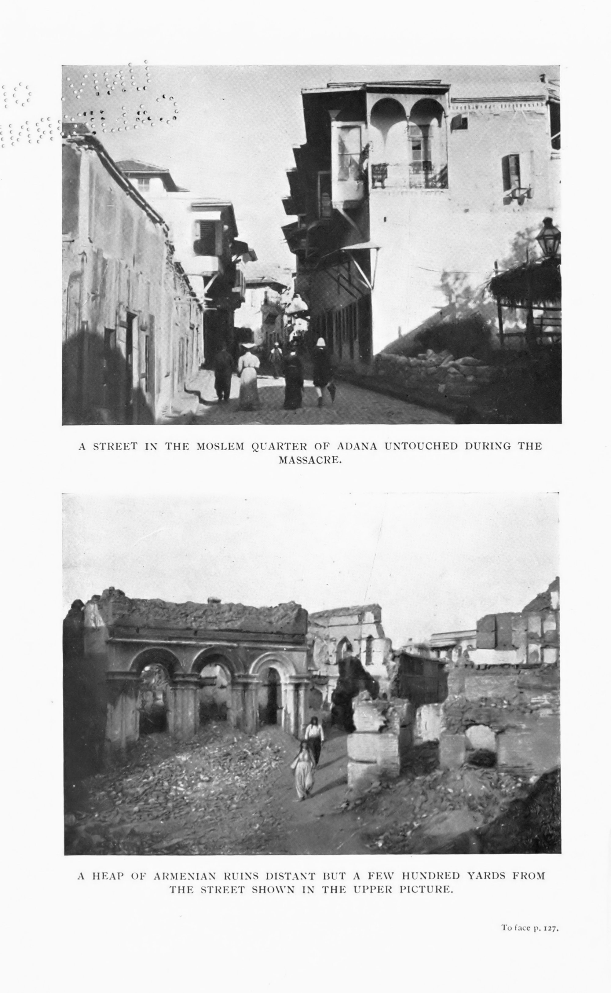 The Danger Zone of Europe: Changes and Problems in the Near East